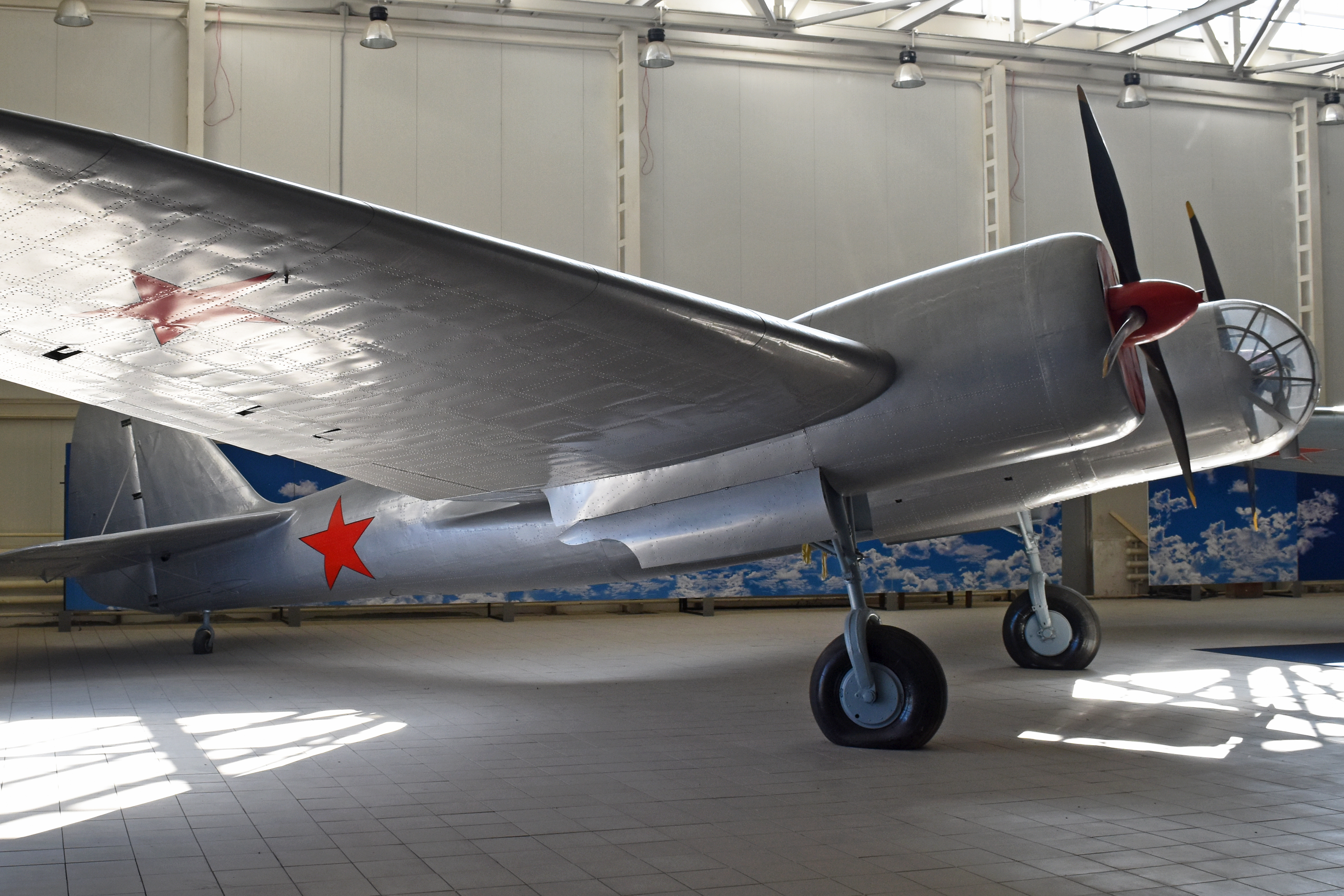 The SB, known to Tupolev as the ANT-40, first flew in 1934. It was designed as a high speed bomber and had a maximum speed of 280mph, which was faster than fighters of the time such as the Polikarpov I-15 which could only reach 220mph. A successful machine, it was flown by ten countries and was not finally retired from Spanish service until 1950. Despite over 6,600 being built and many surviving the war, this is now the only remaining example. In 1939 it had force landed during a snow storm near the Yuzhne Muiski Mountain range in the Baikal Region. The remains were recovered in the late 1970’s and restoration was carried out by a volunteer group of Tupolev employees. It first went on display at Monino in April 1982 and after several years outside in all weathers it is now safely under cover in the new Hangar 6B, which has been built behind the main entrance building. At the time of our visit the hangar had not been officially opened to the public, but we were given special permission to access it from Hangar 6A. Central Air Force museum, Monino, Moscow Oblast, Russia. 27th August 2017